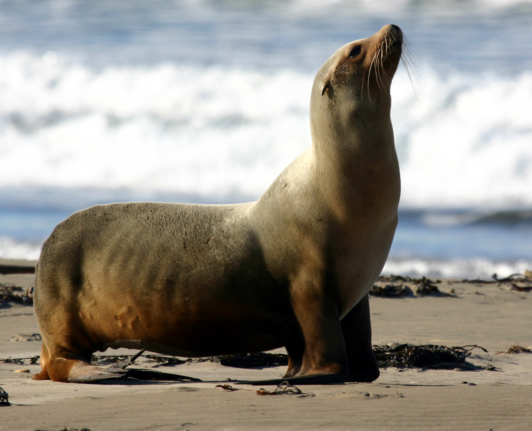 Sea Lion on Morro Strand State Beach, Morro Bay, CA - photo by Mike Baird